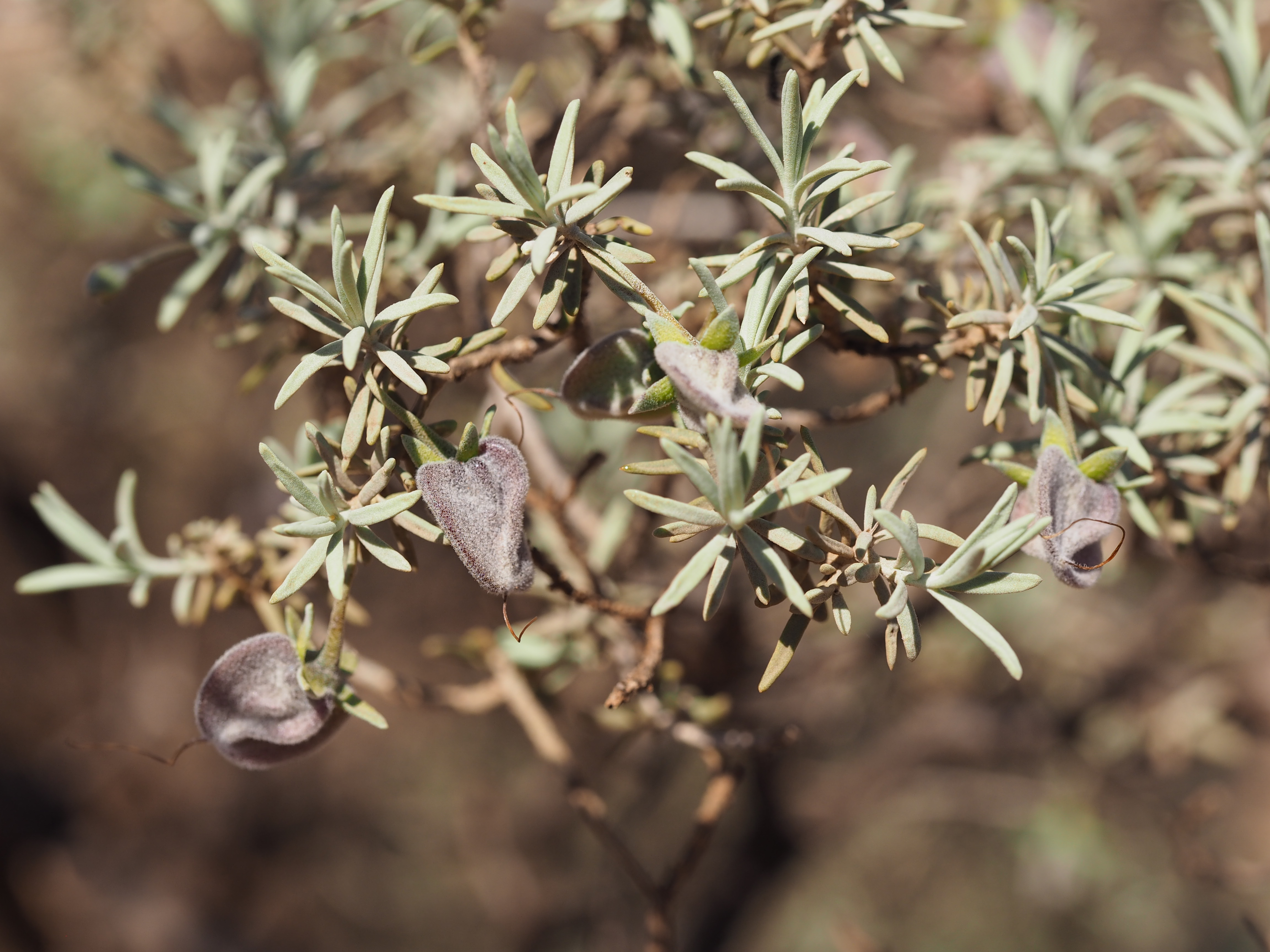 Eremophila pterocarpa acicularis growing 27km along Neds Creek Road